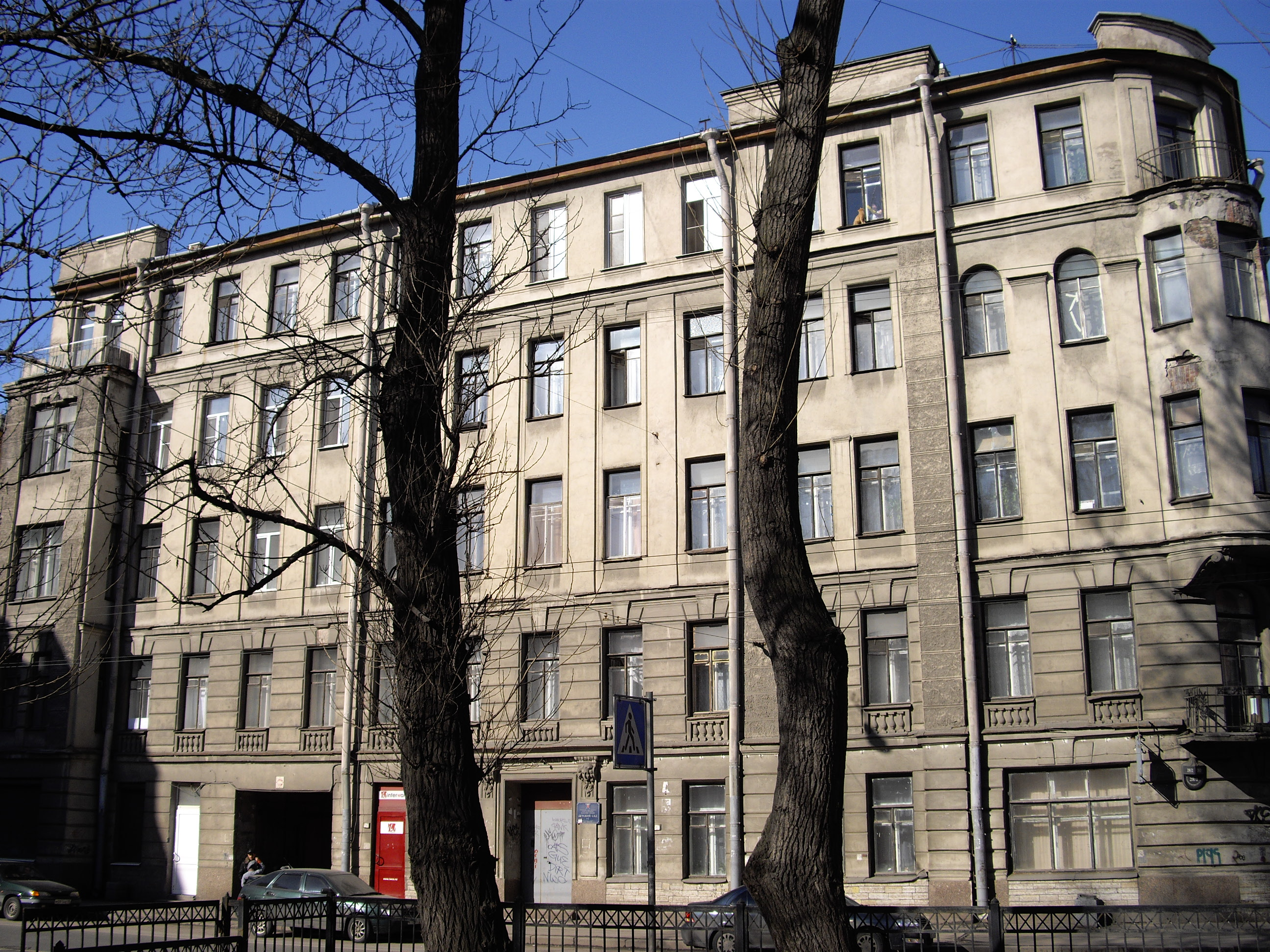 28, Bolshaya Pushkarskaya street / 2, Shamsheva Street (Saint Petersburg, Russia). 1912, architect Pavel Mulkhanov.